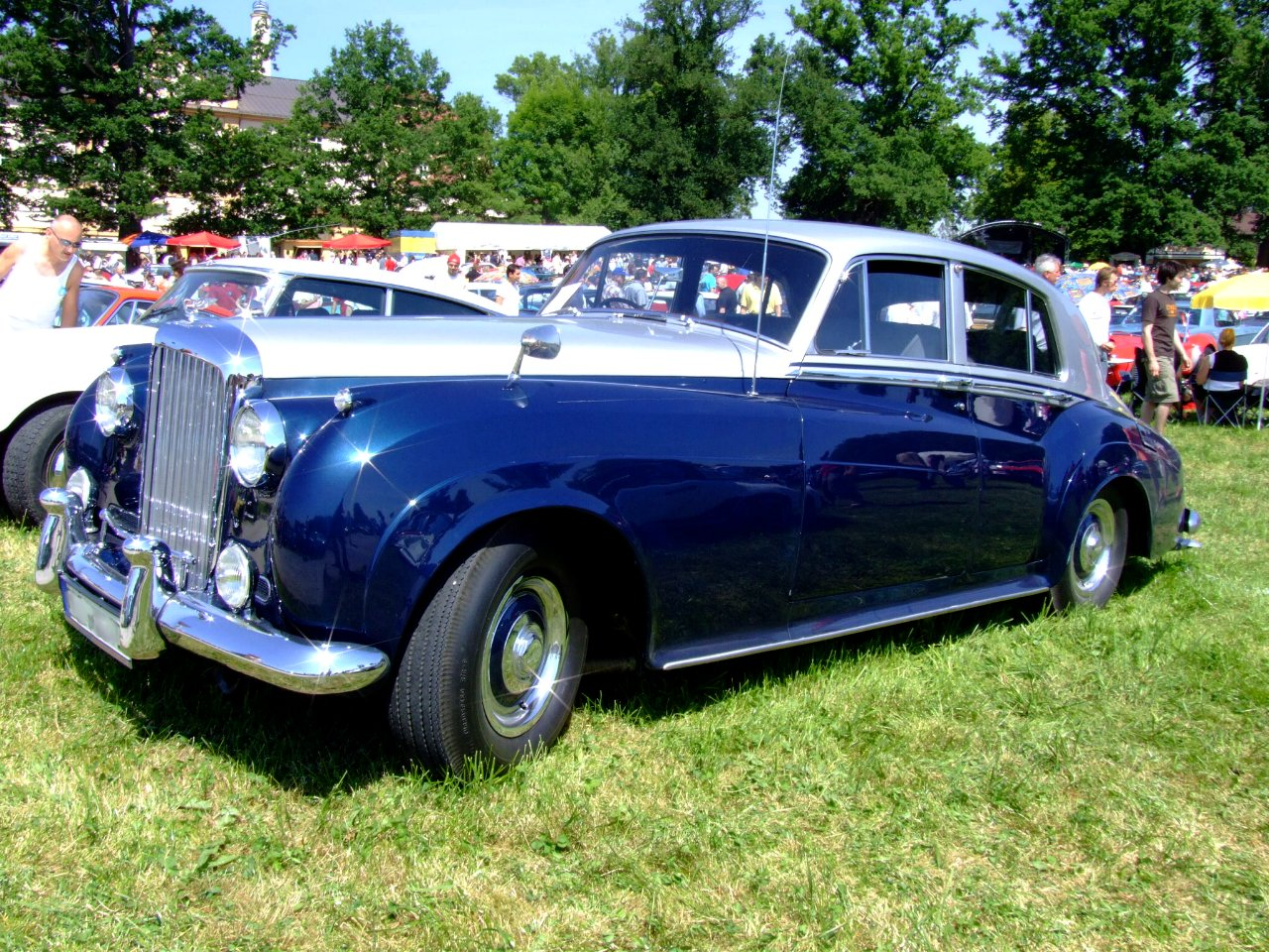 Summary Quelle: selbst fotografiert, 06/2006 Fotograf: Späth Chr. Licensing